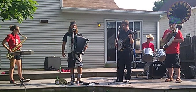 Chardon Polka Band at "Old Style Beer" Video Shoot